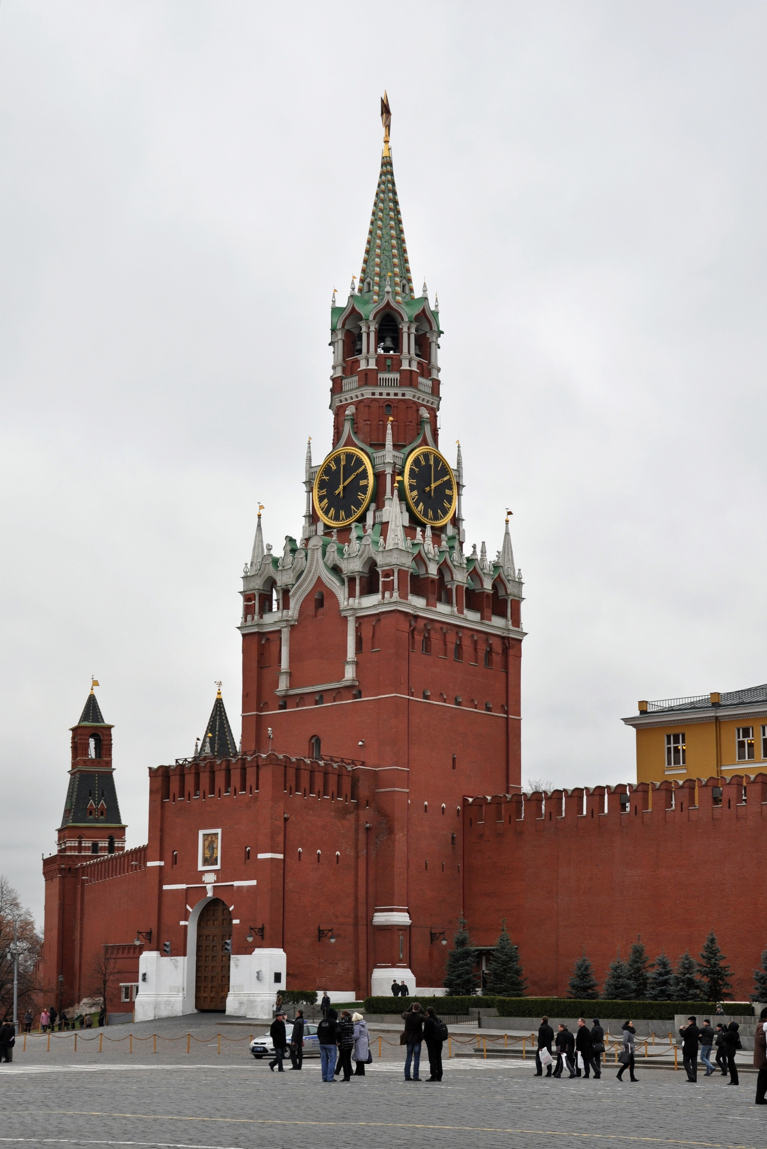 Spasskaya Tower in November, 2010